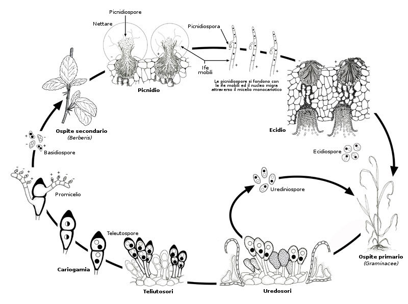 Life cycle of Puccinia graminis - italian version